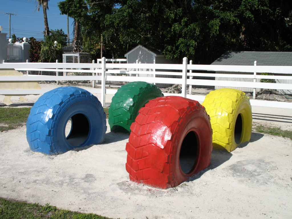 Bahamas, Adventure Learning Centre